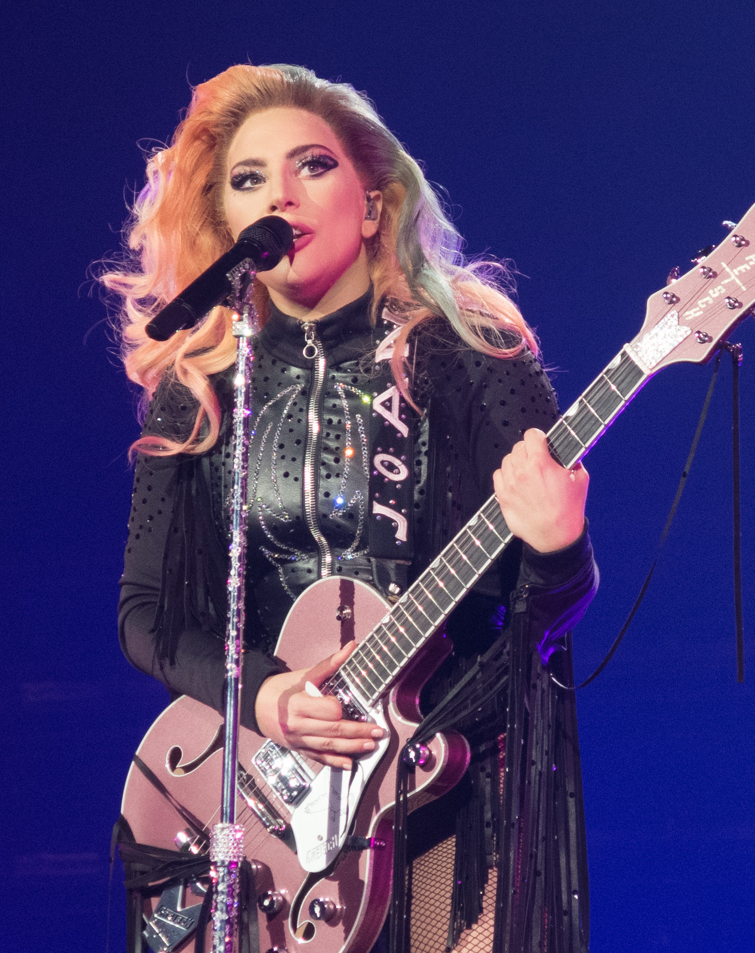 Lady Gaga performing "A-Yo" during her Joanne World Tour in Toronto, 2017